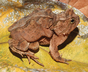 Anurans from the RPPN Serra Bonita, Bahia State, Northeastern Brazil. a Physalaemus camacan b P. erikae c Chiasmocleis crucis d Stereocyclops histrio e Stereocyclops incrassatus f Odontophrynus carvalhoi g Proceratophrys renalis h P. schirchi and i Siphonops annulatus.